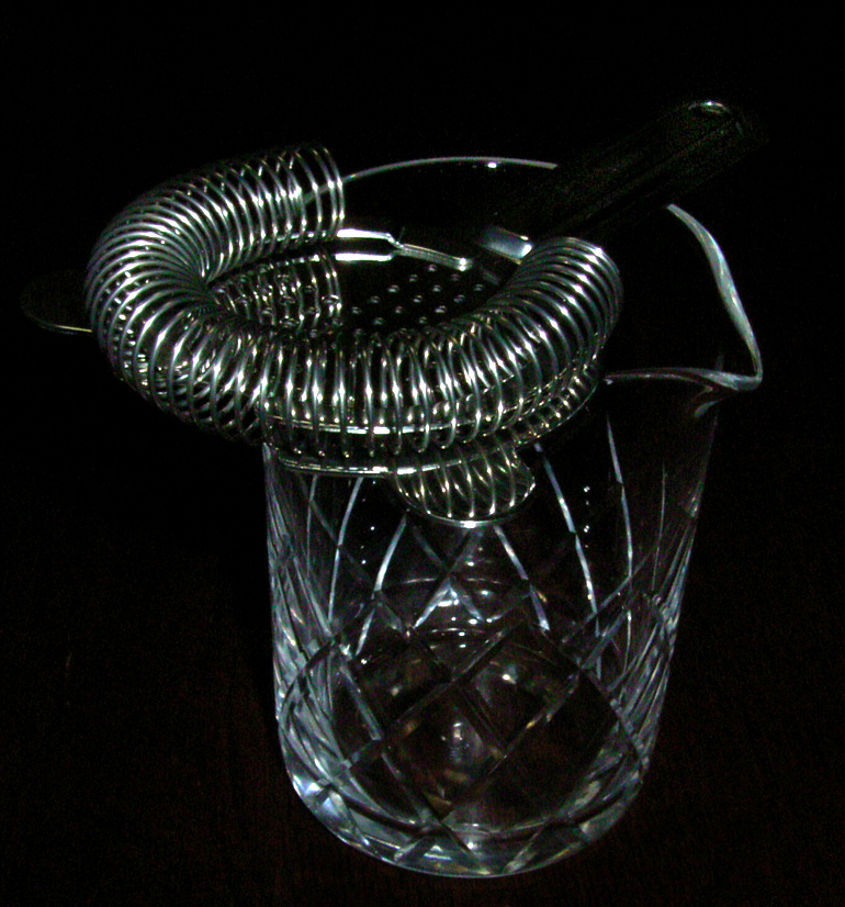 Cocktail Strainer with Glass